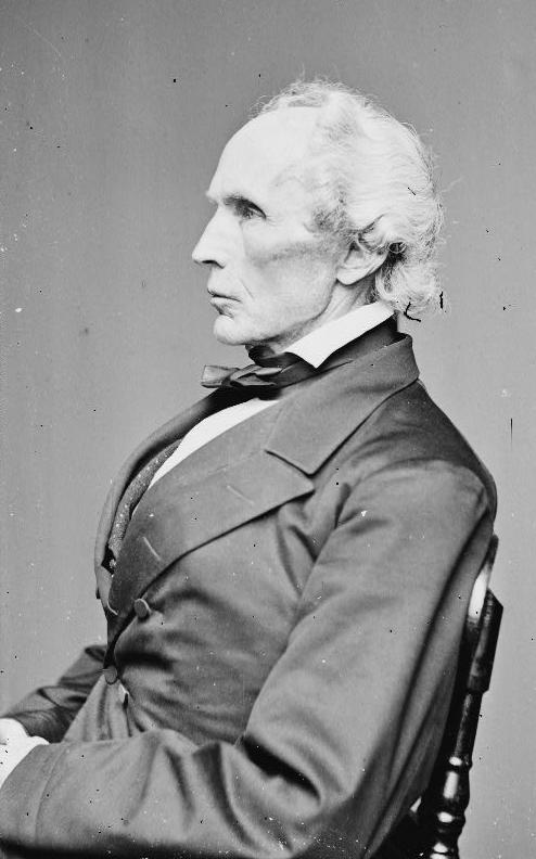 Kentucky politician Garrett Davis.